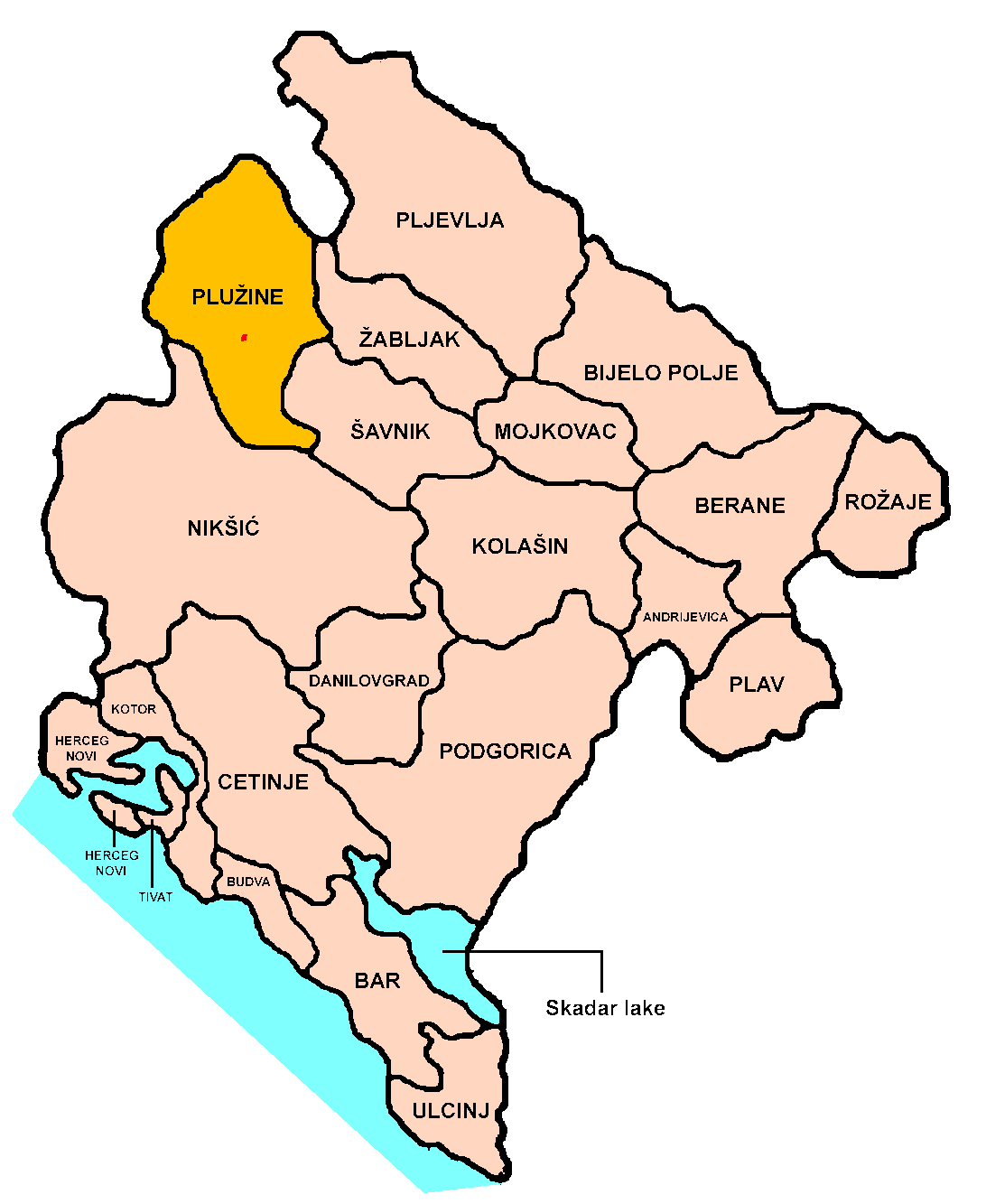 Location of Plužine town and municipality within Montenegro